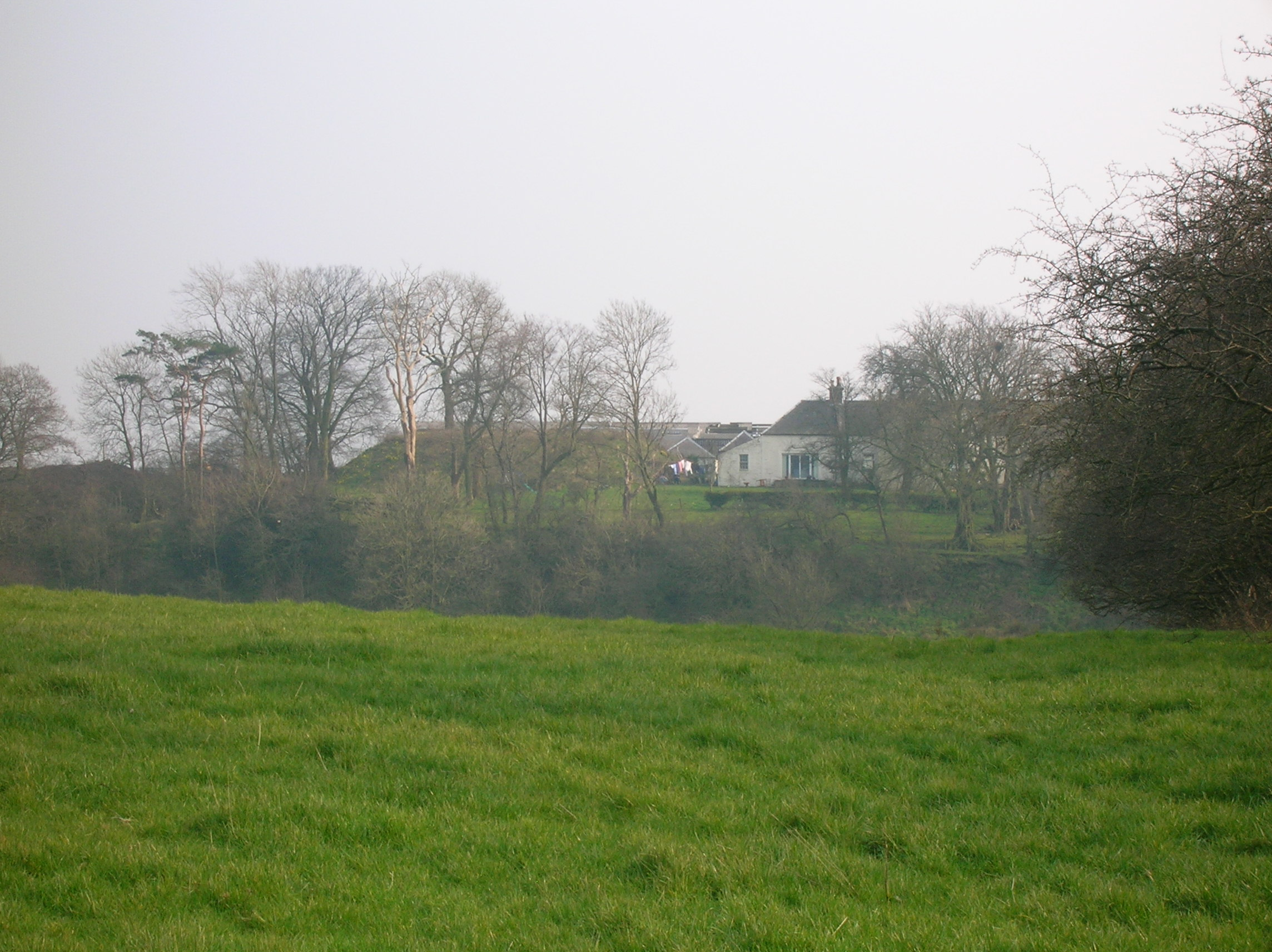 The tumulus or mound at Greenhill Fram, Knockentiber, North Ayrshire, Scotland. 2007.